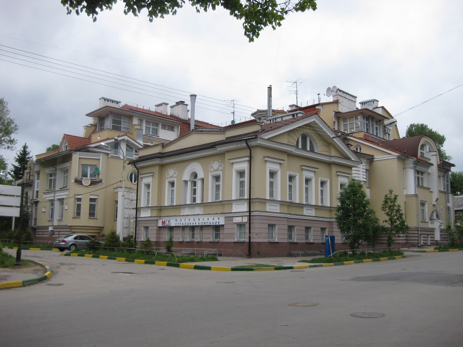 House named "In memory of Kiesewetter", Nizhny Novgord. A part of the building follows an old project of architect Georg Kiesewetter.